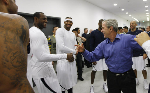 LeBron James greets former US President George W. Bush at the 2008 Summer Olympic Games.